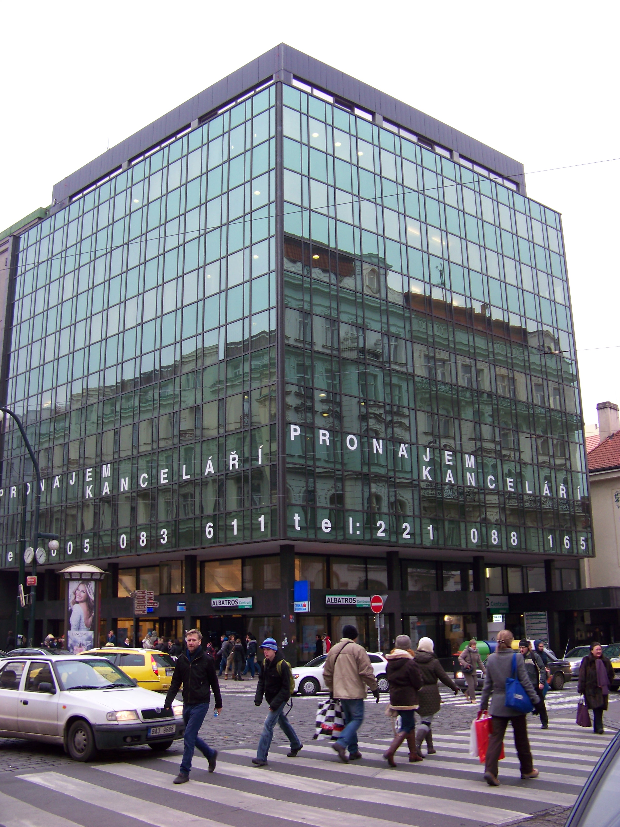 Prague-Old Town, Czech Republic. Národní 342/29, Na Perštýně 342/1, Albatros.